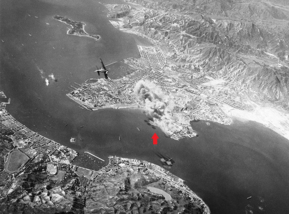 Allies aircraft fly to Hong Kong and incorrectly airstrike Hung Hom residences (red arrow), large smoke rise to sky, around 300 people died and 300 injured.